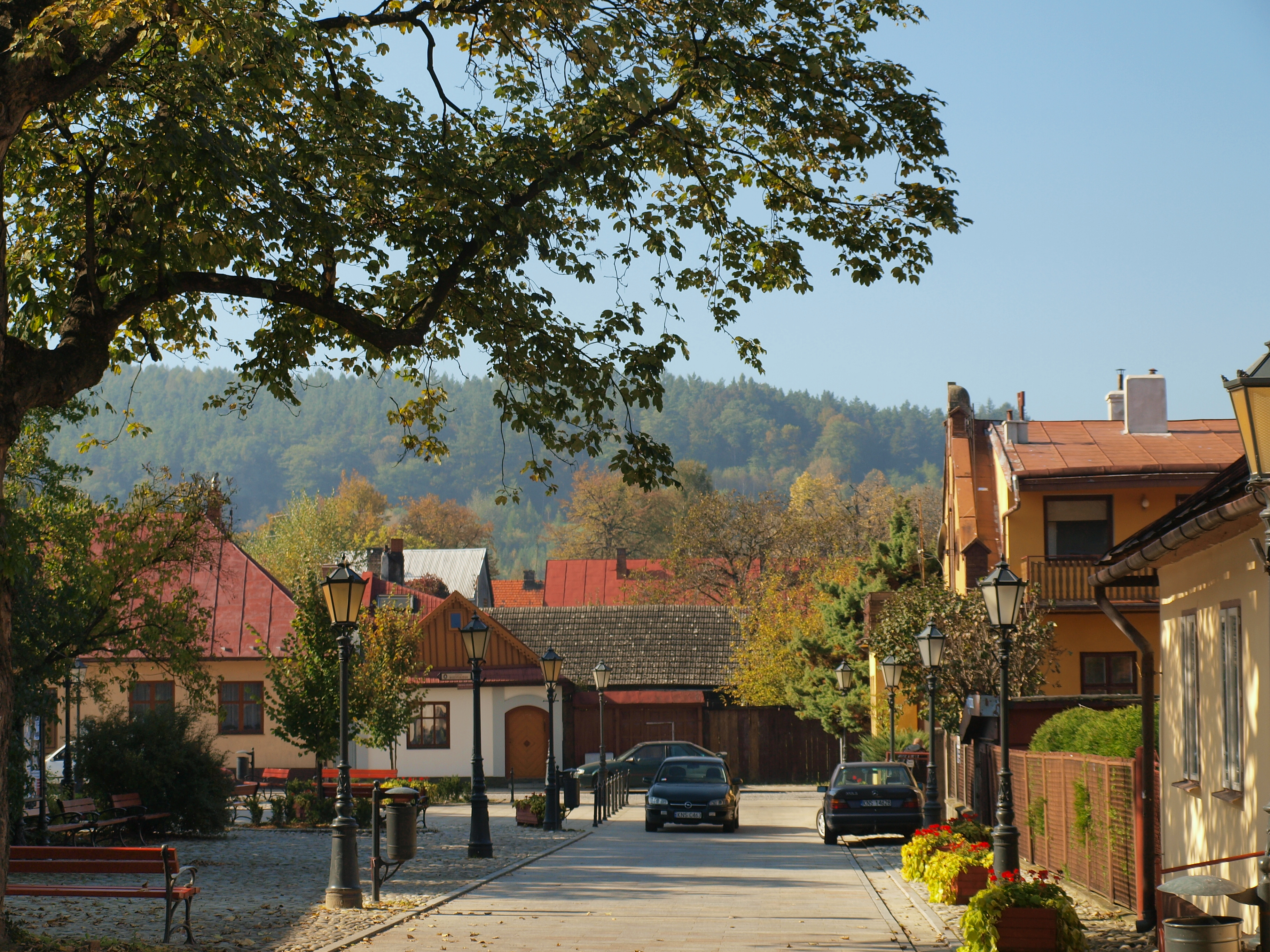 Stary Sącz, St. Kinga street